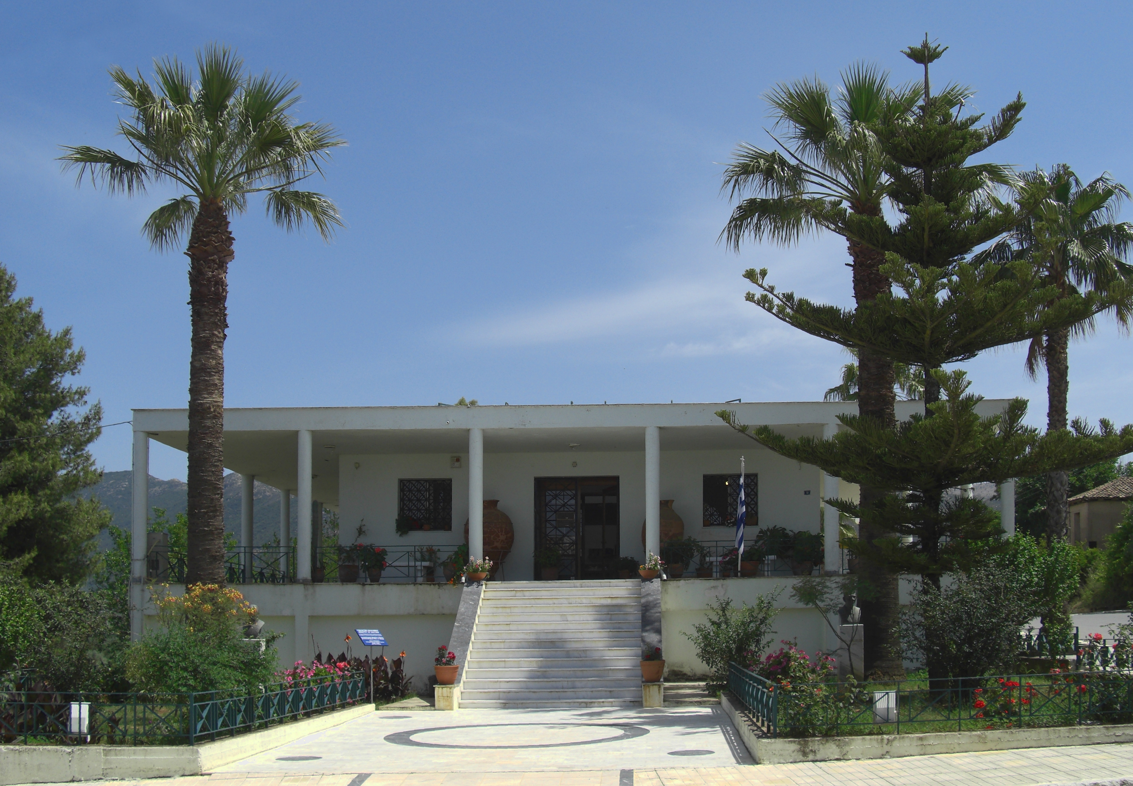 The archeaological museum at Hora in greece, where the findings of the palace of Nestor are kept.